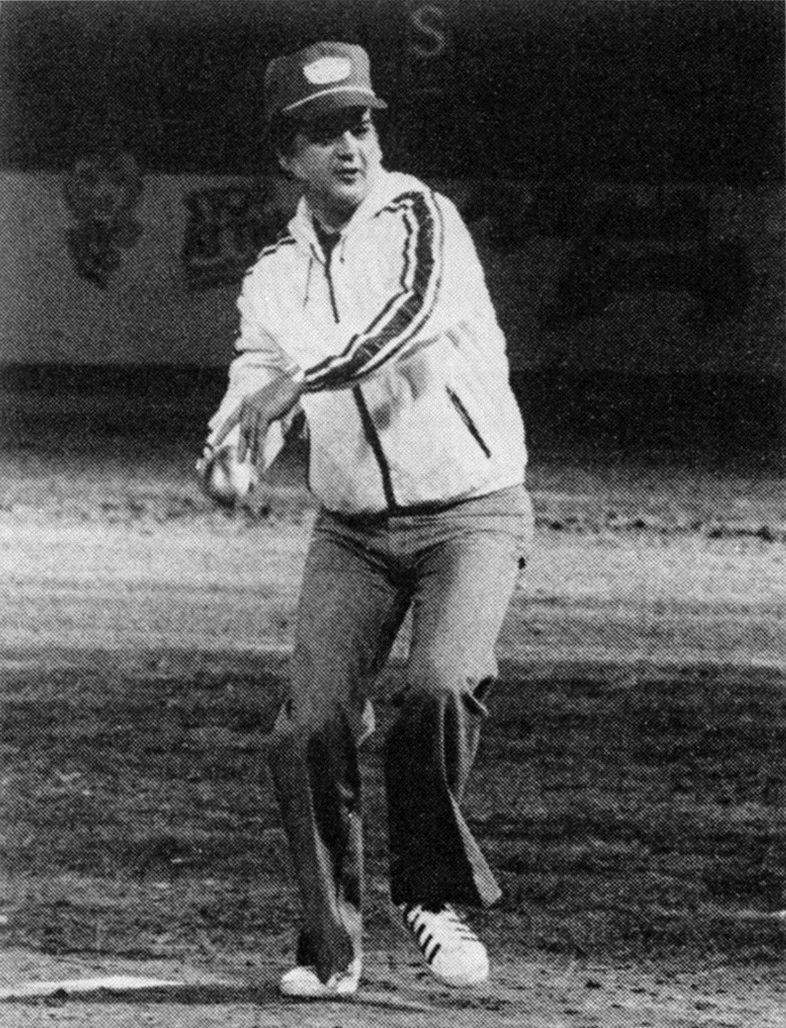 Country musician Conway Twitty throwing out the first pitch at the first Nashville Sounds Minor League Baseball game at Herschel Greer Stadium on April 26, 1978